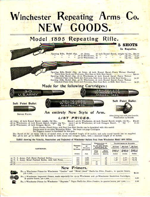 Advertisement for the Winchester Model 1895 lever-action rifle